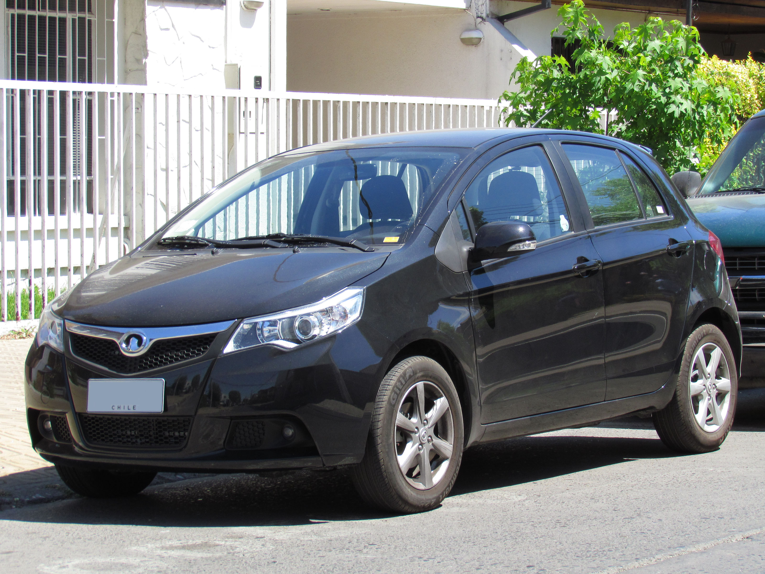 Great Wall Voleex C10 1.5 LE 2013